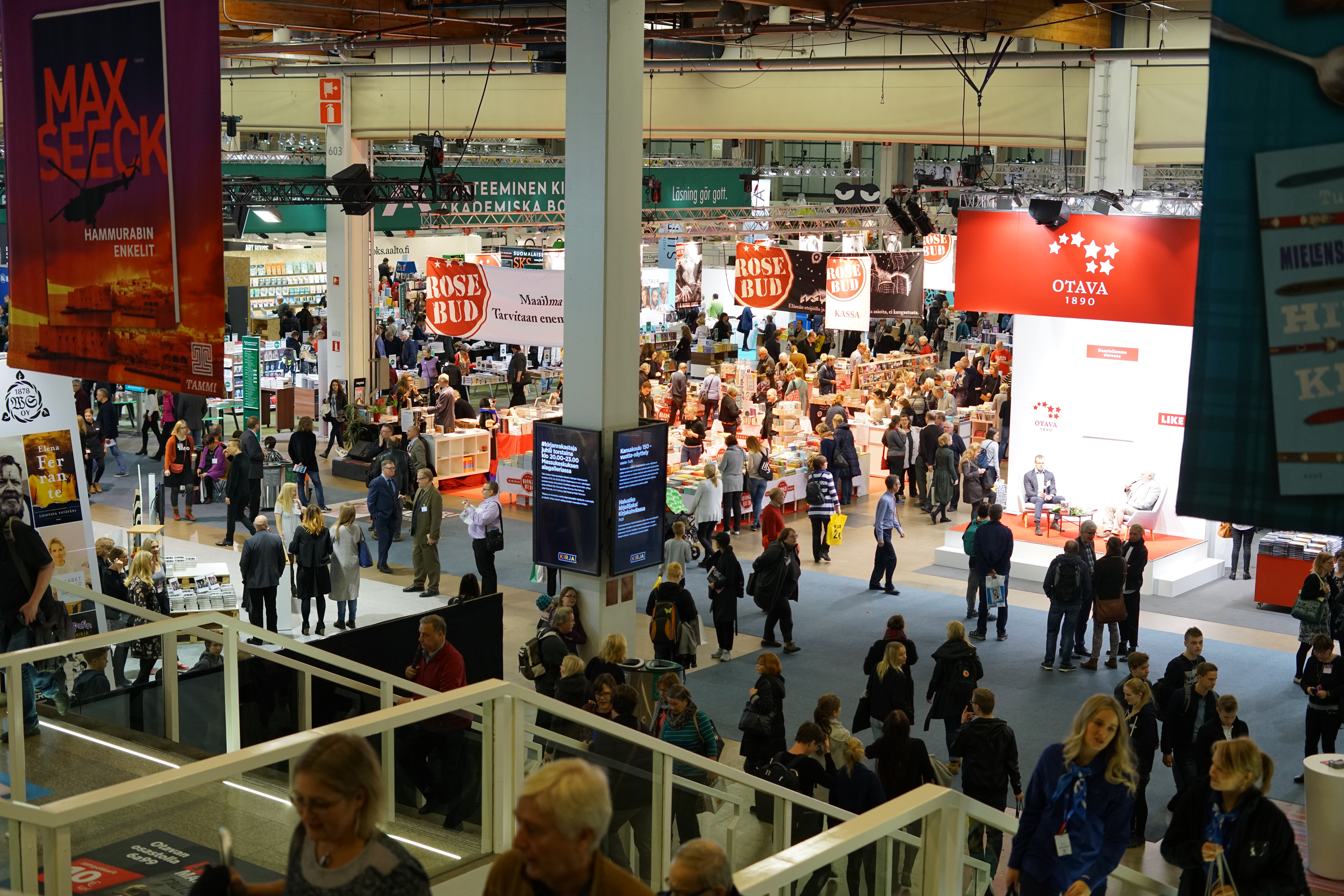 Helsinki Book Fair 2016 viewed from top of the front door stairs.